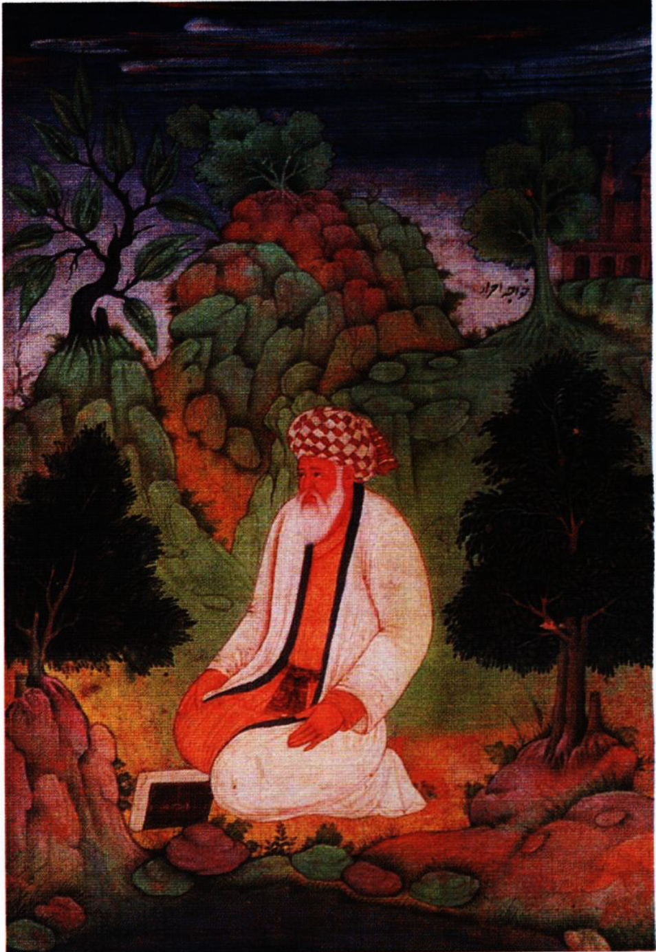 Khwaja Ubaidullah Ahrar with a book